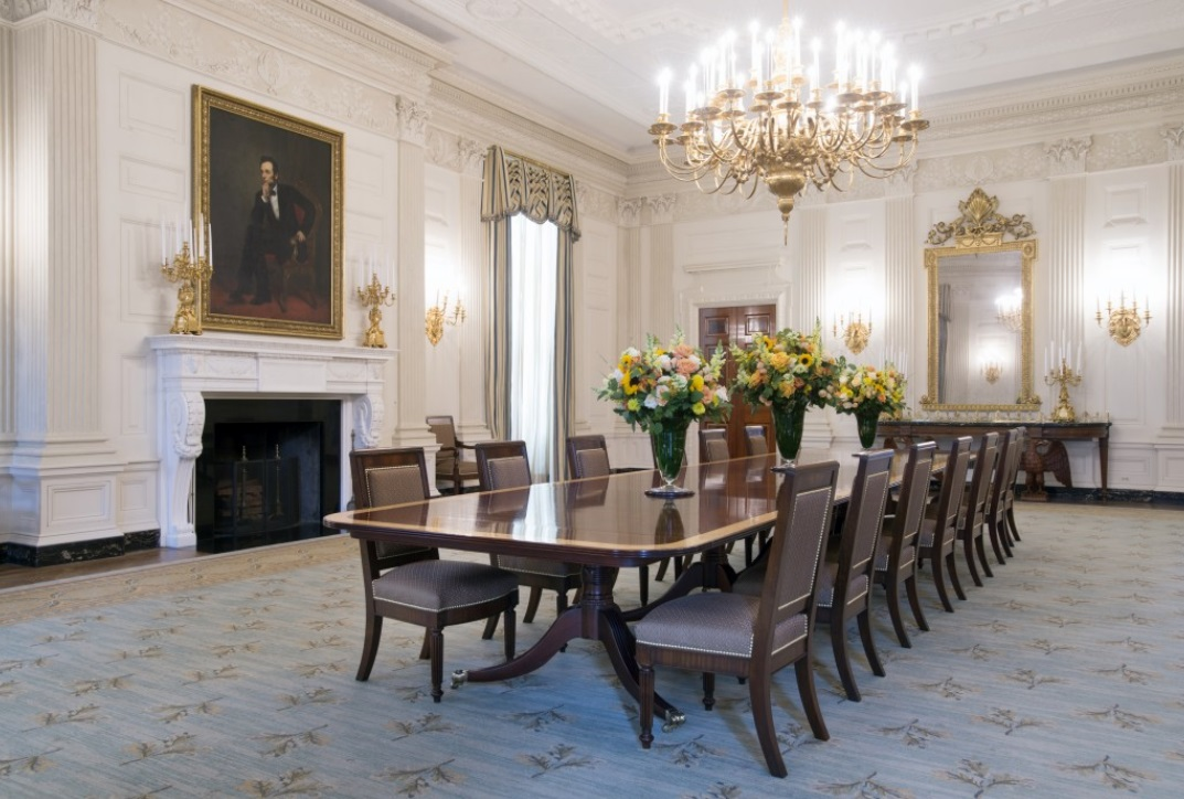 The State Dining Room at the White House in Washington, D.C., after its June 2015 renovation.